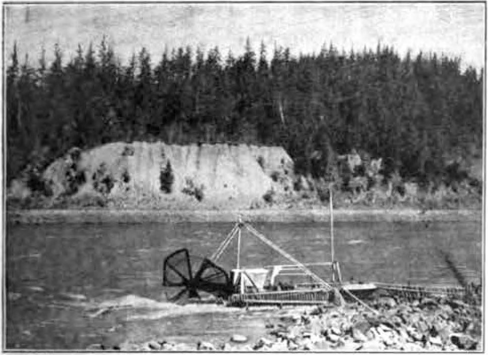 A fish-wheel in Oregon, from Maury's New Elements of Geography for Primary and Intermediate Classes.